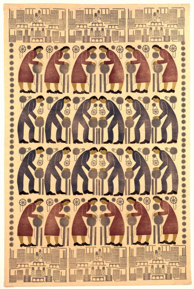 The Workers, wall hanging by Florence Kawa for the WPA Federal Art Project's Milwaukee Handicraft Project, Milwaukee, Wisconsin. Reproduced in Kennedy, Roger G.; Larkin, David (2009). When Art Worked: The New Deal, Art, and Democracy. New York: Rizzoli International Publications, Inc. ISBN 978-0-8478-3089-3. Pages 164–165. Kennedy writes, "The wall hanging displayed here was given to Eleanor Roosevelt". Described as "block printed, on cotton plain weave", the work is in the American Textiles Collection of the Indianapolis Museum of Art. More information